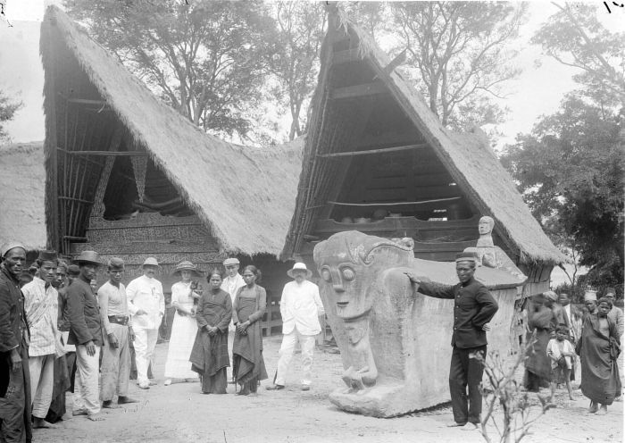 The kepala negri (head of the village) of Lumban Sui Sui on Samosir standing near a podom, a stone scultpure, in which ancestor skulls are burried.